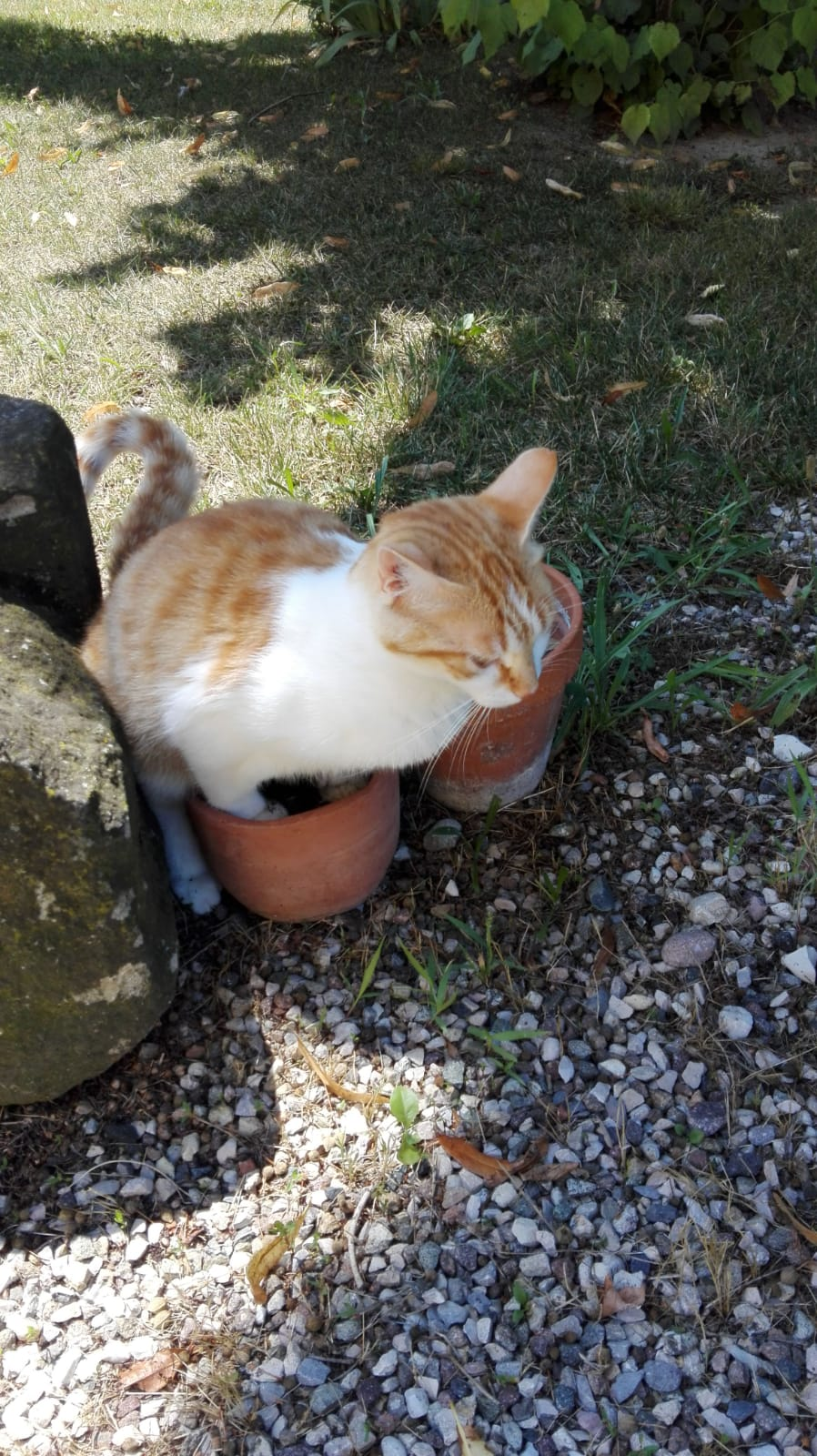 Cat pooping